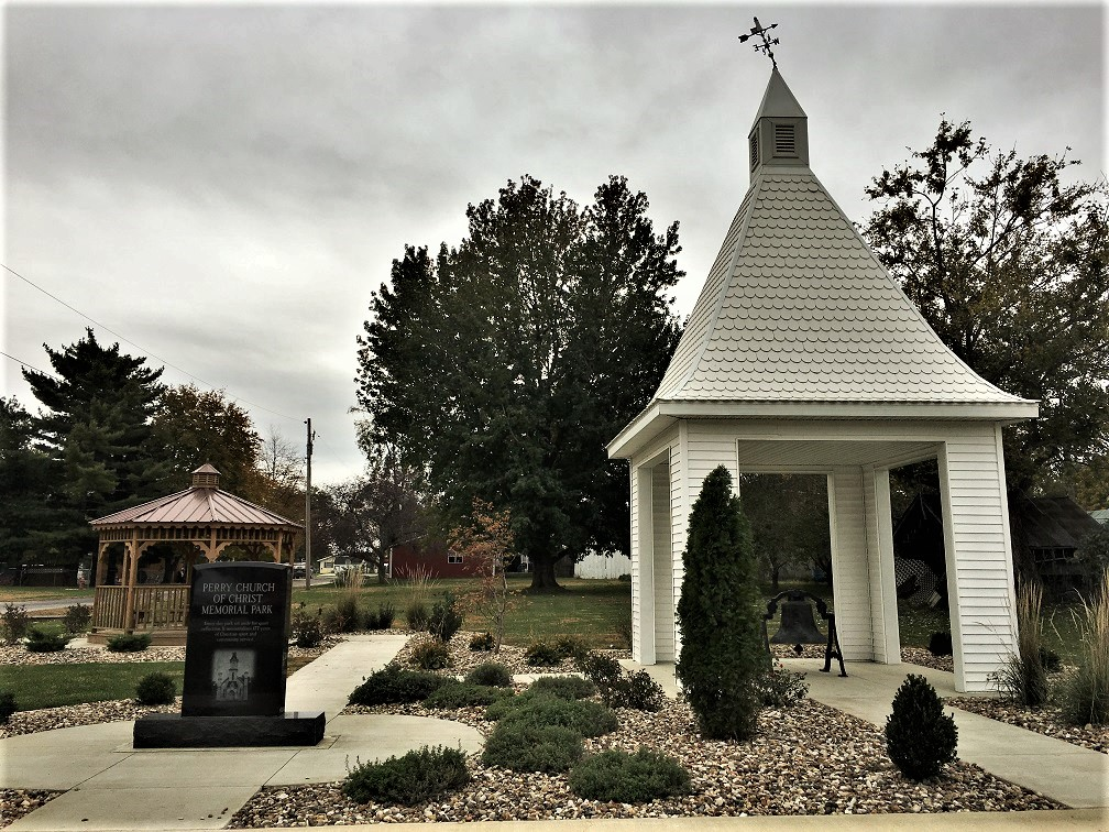 Church of Christ Church was destroyed by a lightning-caused fire in 2014 and the site became a city park.